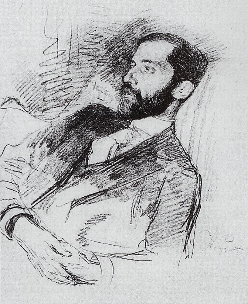 Portrait of writer, poet, critic, translator, historian, philosopher of religion and social activist Dmitri Sergueyevich Merezhkovsky. Pencil on paper. 34.5 × 24.3 cm. Isaak Izrailevich Brodsky flat Museum, St. Petersburg.